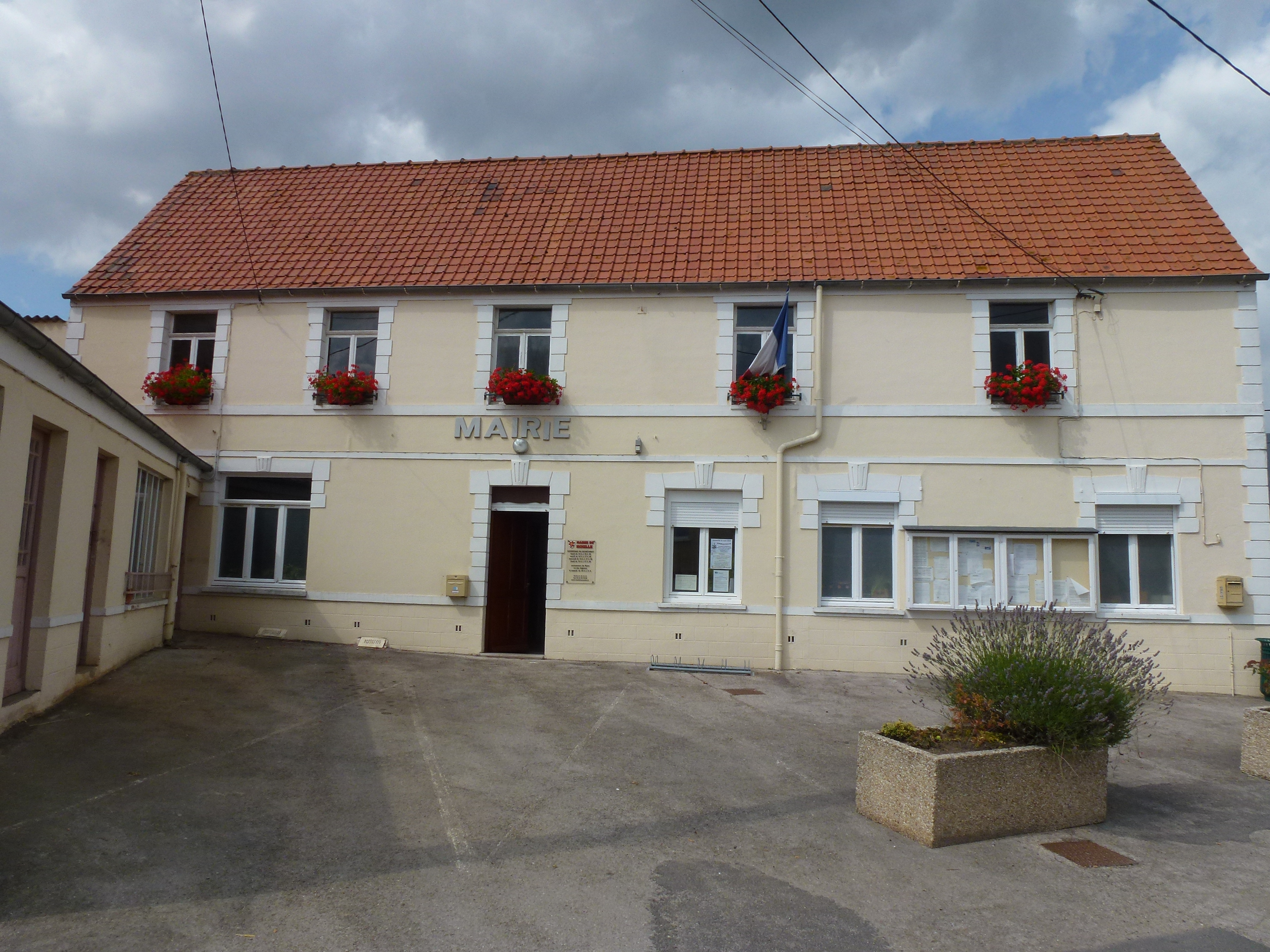 Houlle (Pas-de-Calais) mairie